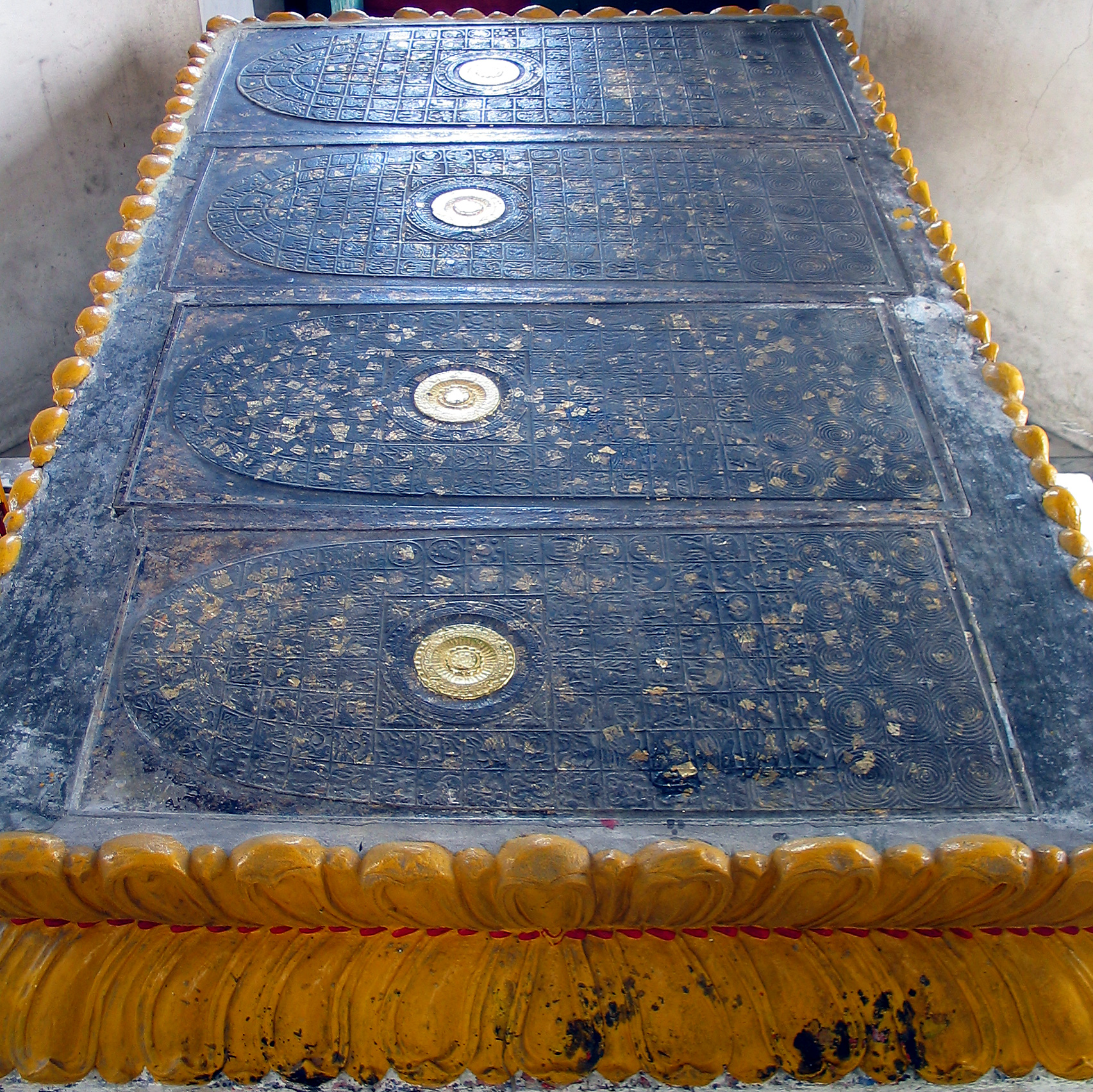 Buddha's footprint in Wat Pichaiyart, Thonburi, Bangkok